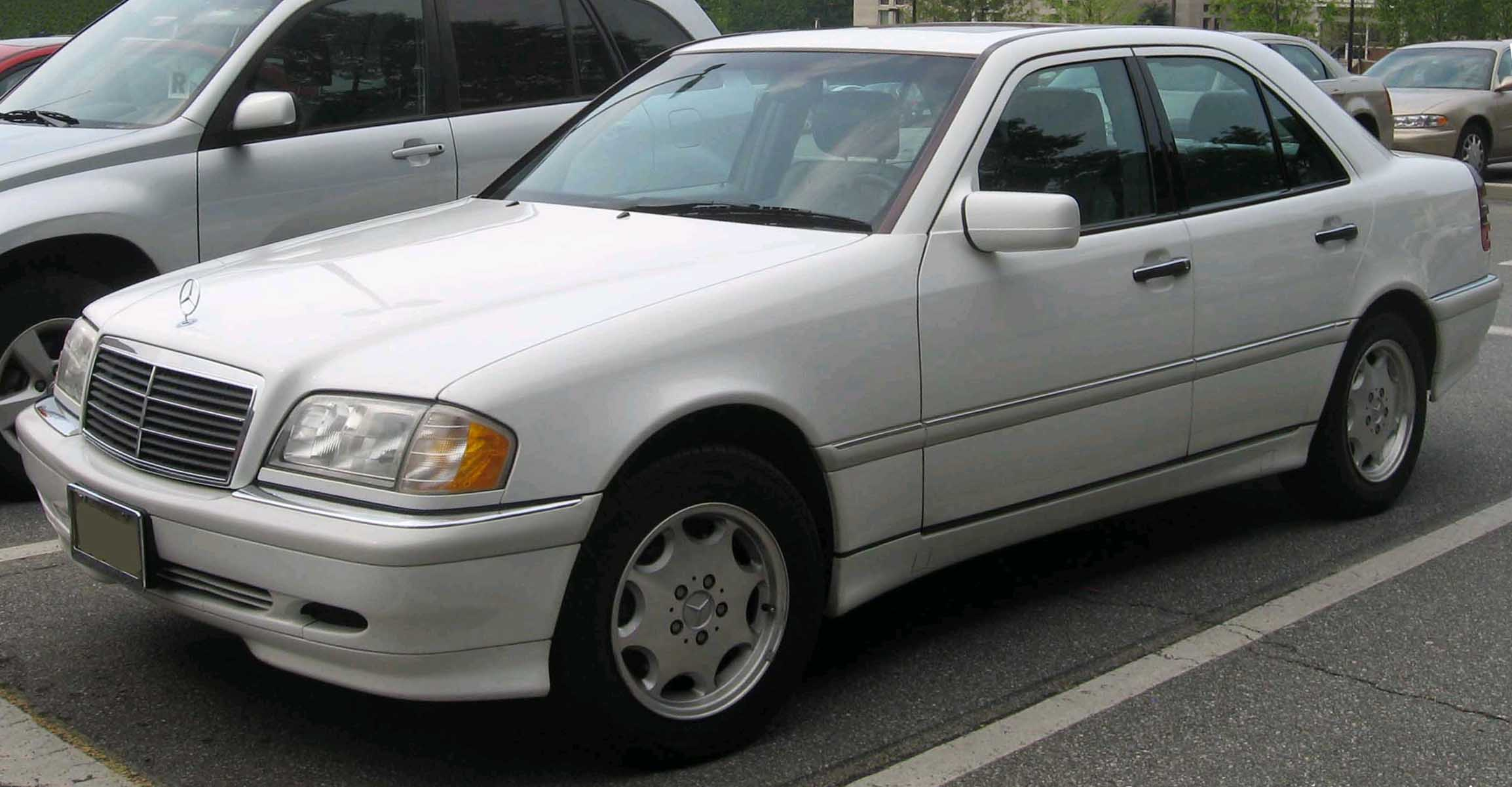 1997-2000 Mercedes-Benz C-Class photographed in College Park, Maryland, USA.